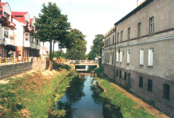 Drawa river in Drawsko Pomorskie